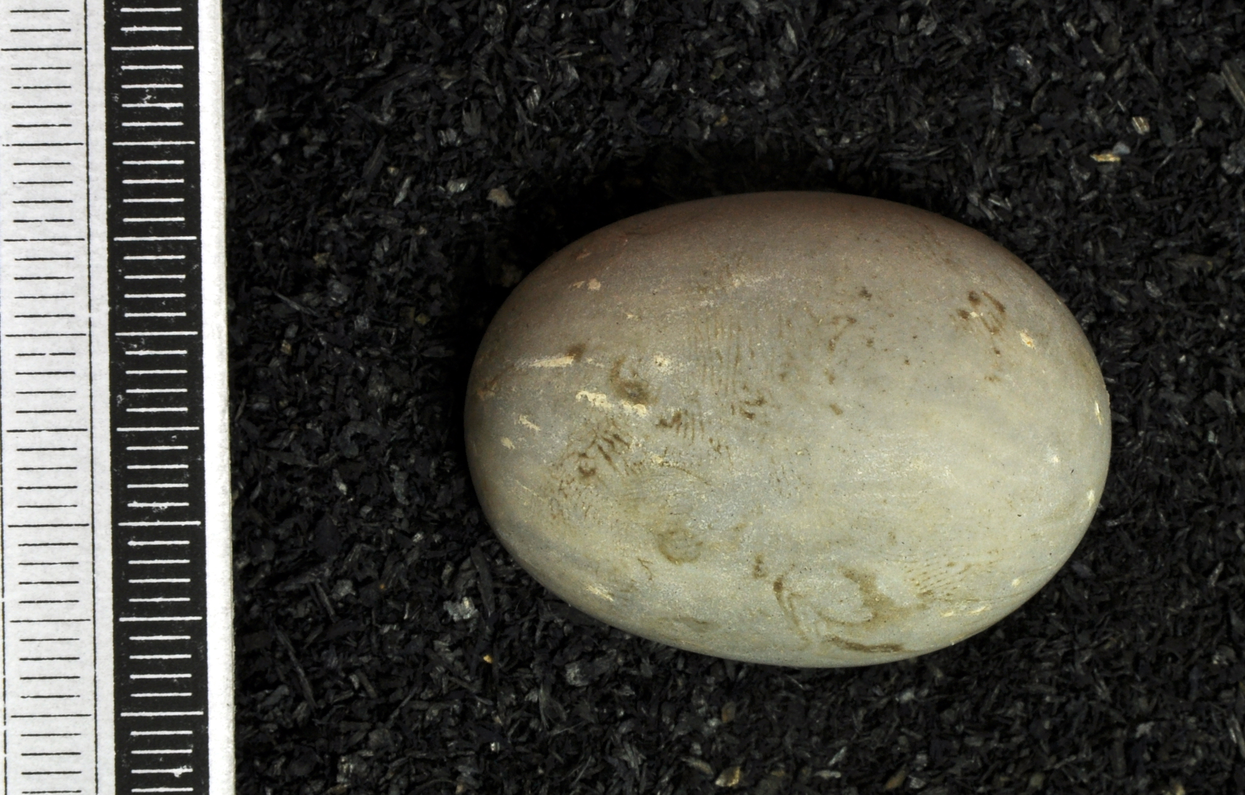 Smooth-billed ani Crotophaga ani , egg, Coll. Museum Wiesbaden